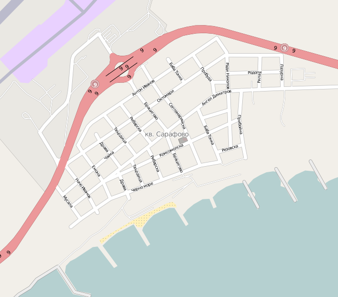 Burgas: Sarafovo